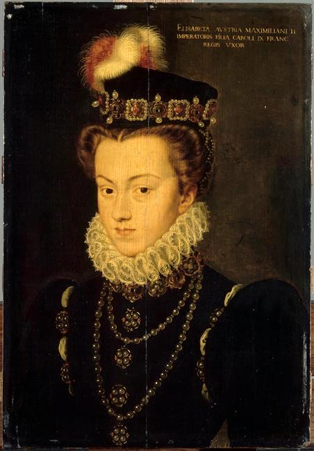 Portrait of Elisabeth of Austria. Queen of France by marriage to Charles IX.